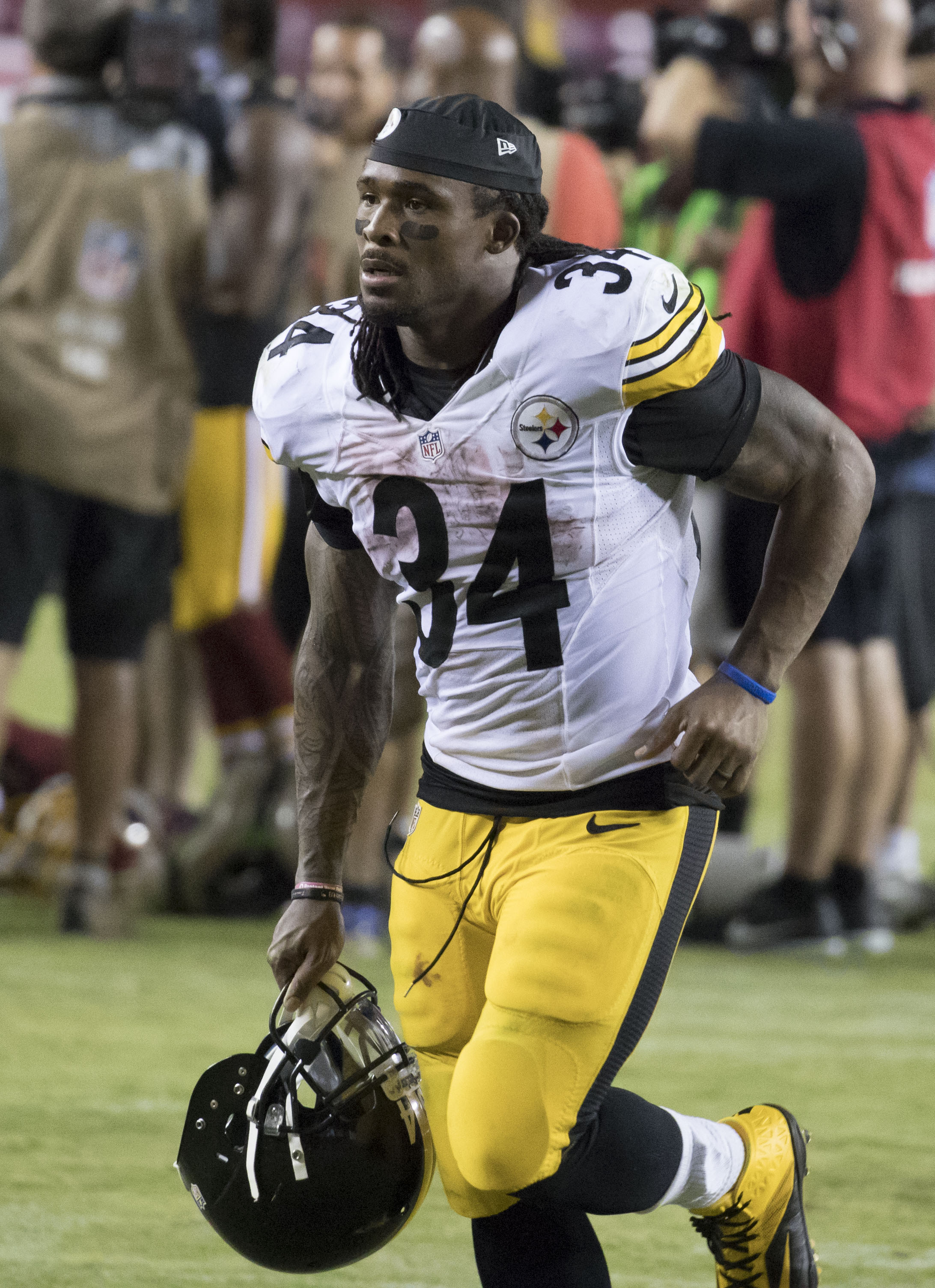 Steelers at Redskins 9/12/16